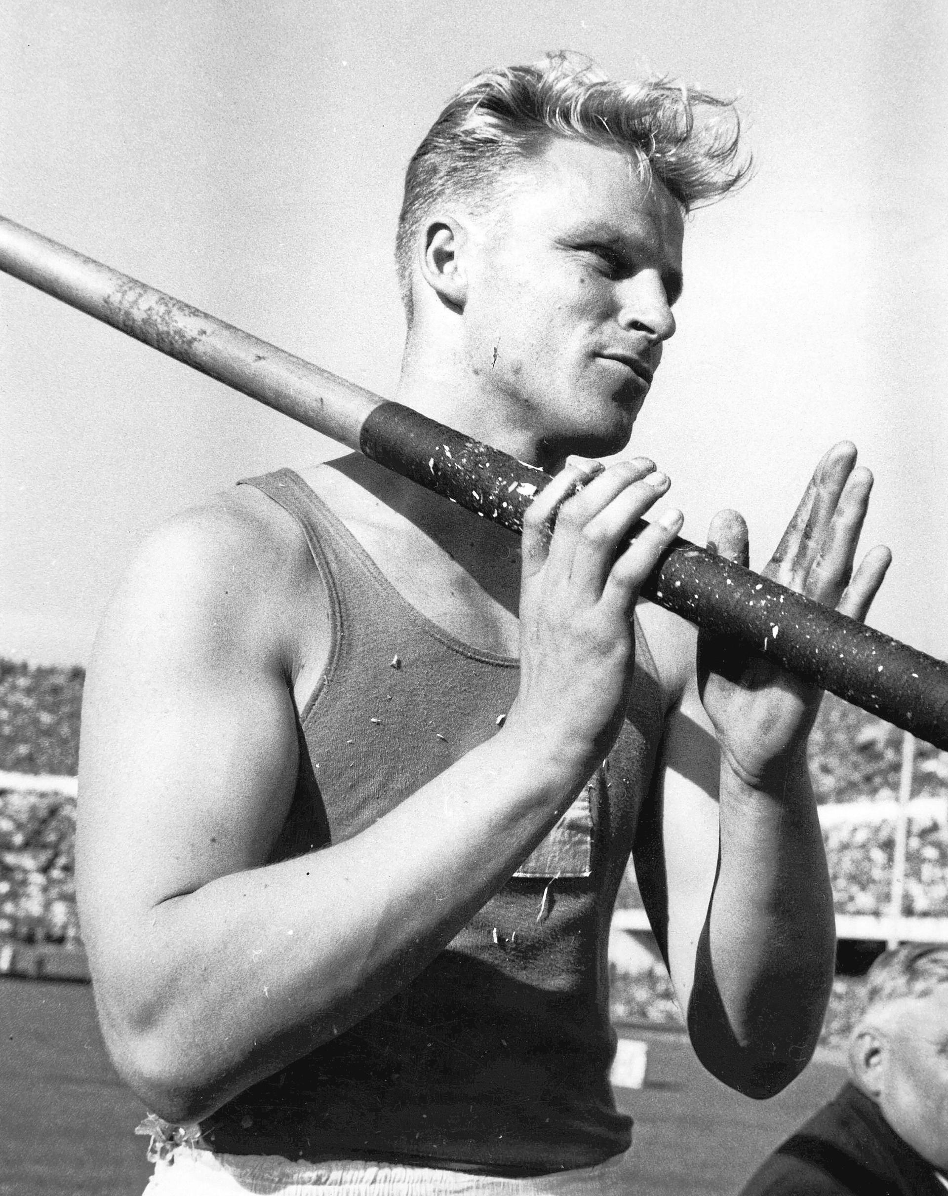 Photograph of the Finnish pole vaulter and politician Eeles Landström (1932–).